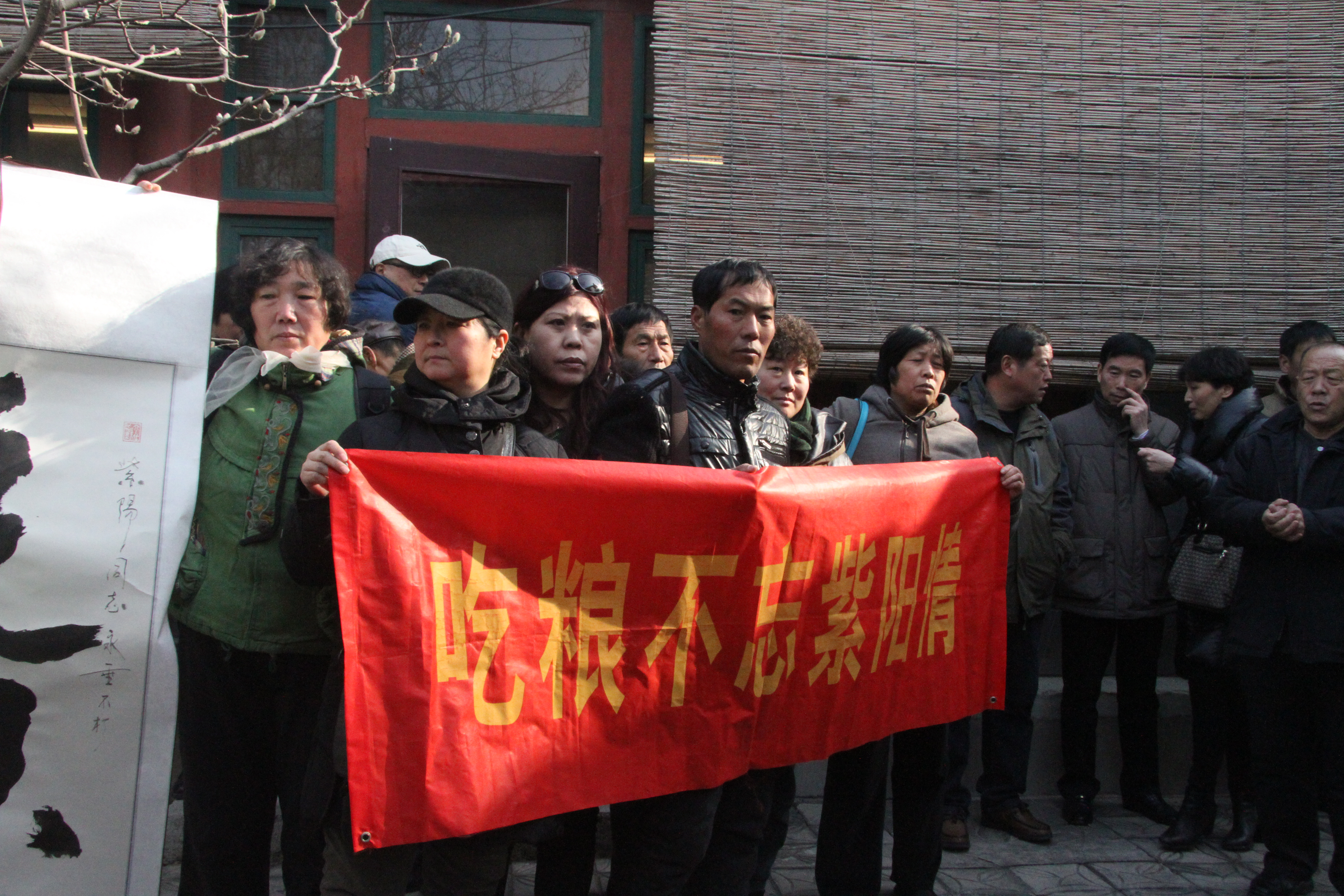 10th death anniversary of Zhao Ziyang.